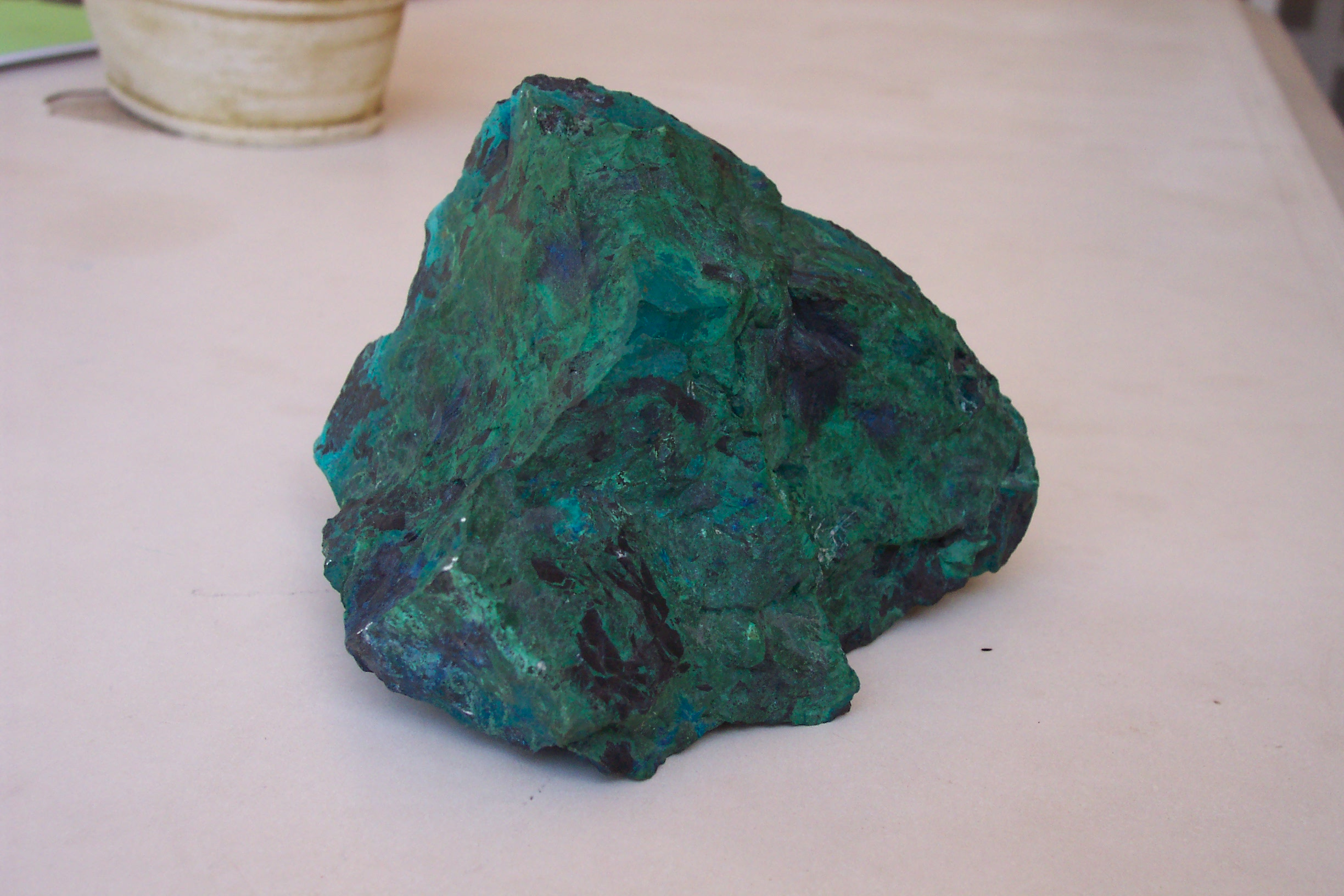 Stones in Israel